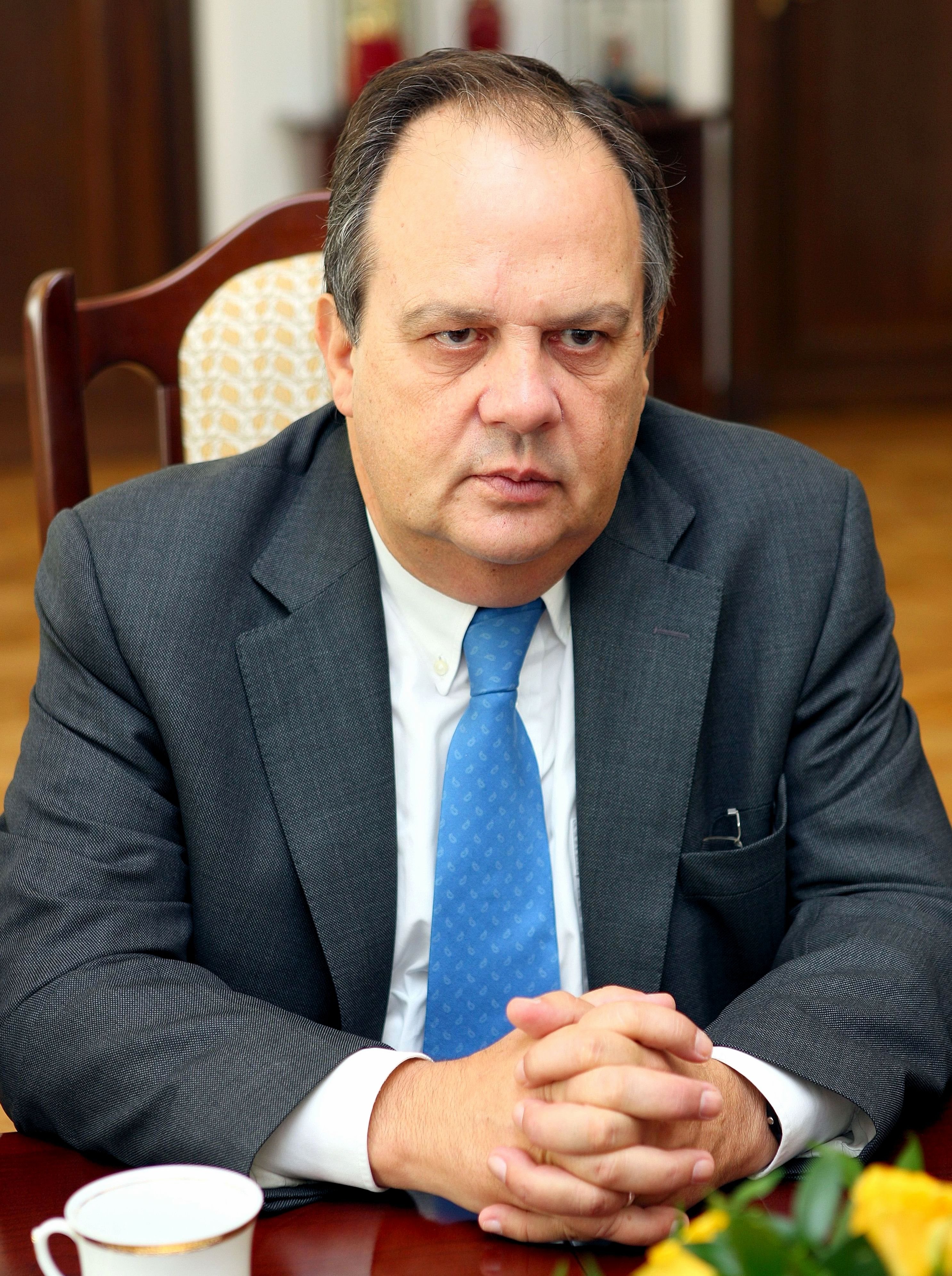 President of the OSCE Parliamentary Assembly João Soares in the Polish Senate